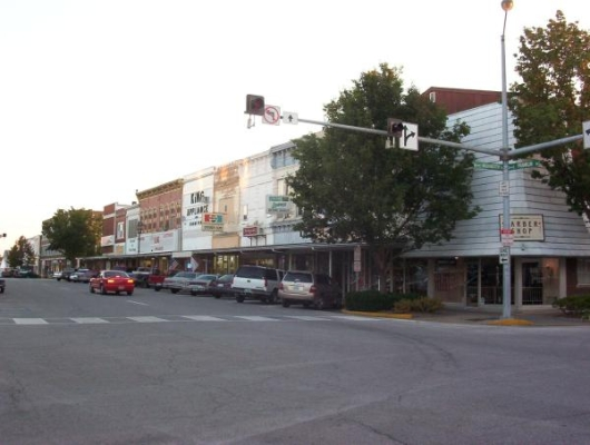 A barbershop, a cafe, and other businesses on the square. Taken in 2004. Kirksville, MO